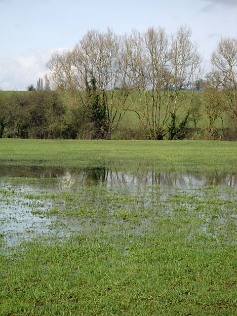 Water logged field Water lying in the field after the recent wet weather.